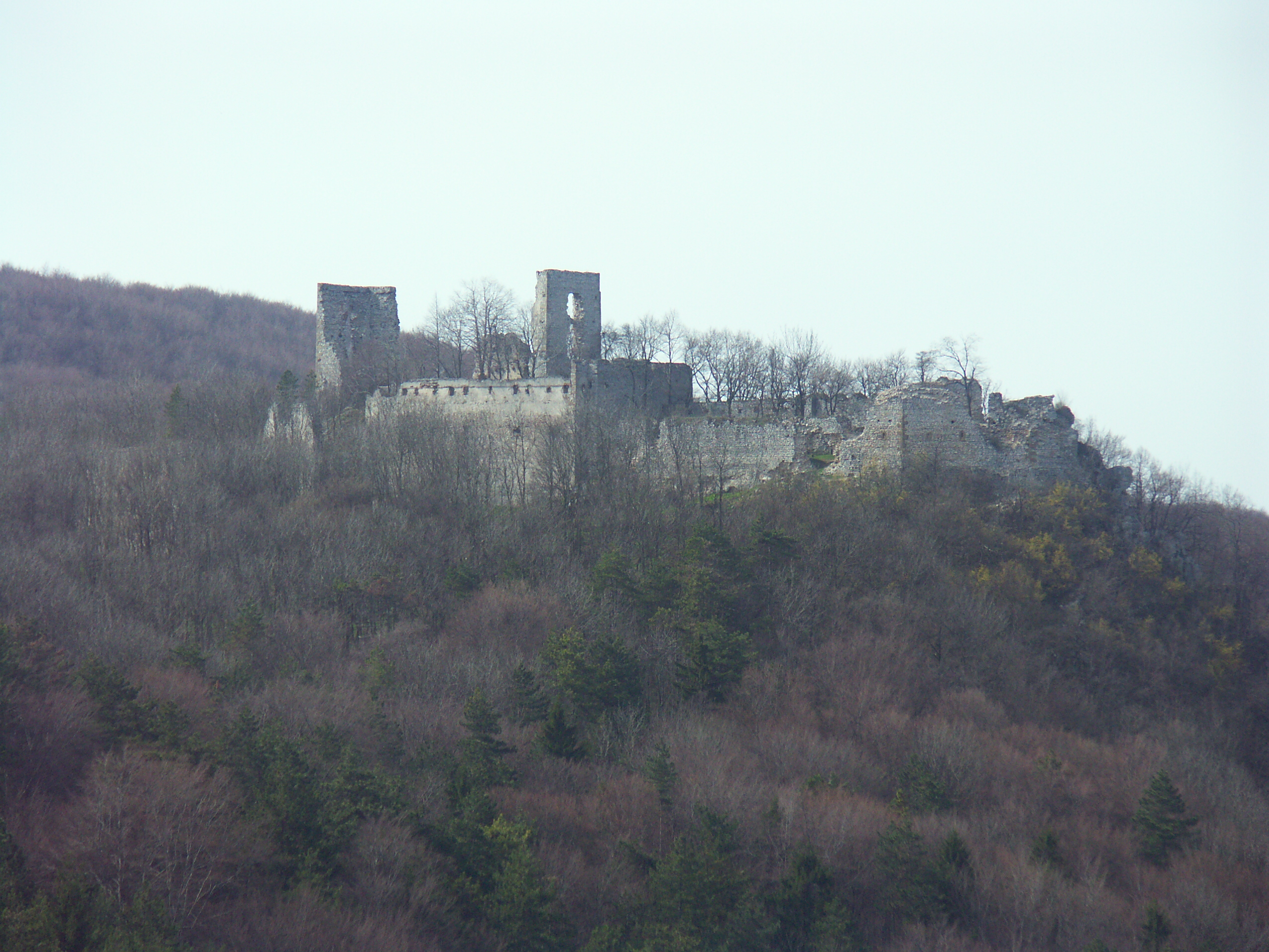 Description: Ruins of the Slovakian castle "Dobrá voda" in region of Trnava Author: Radovan Bahna Captured on: 15th April 2006 in Slovakia, Dobrá Voda